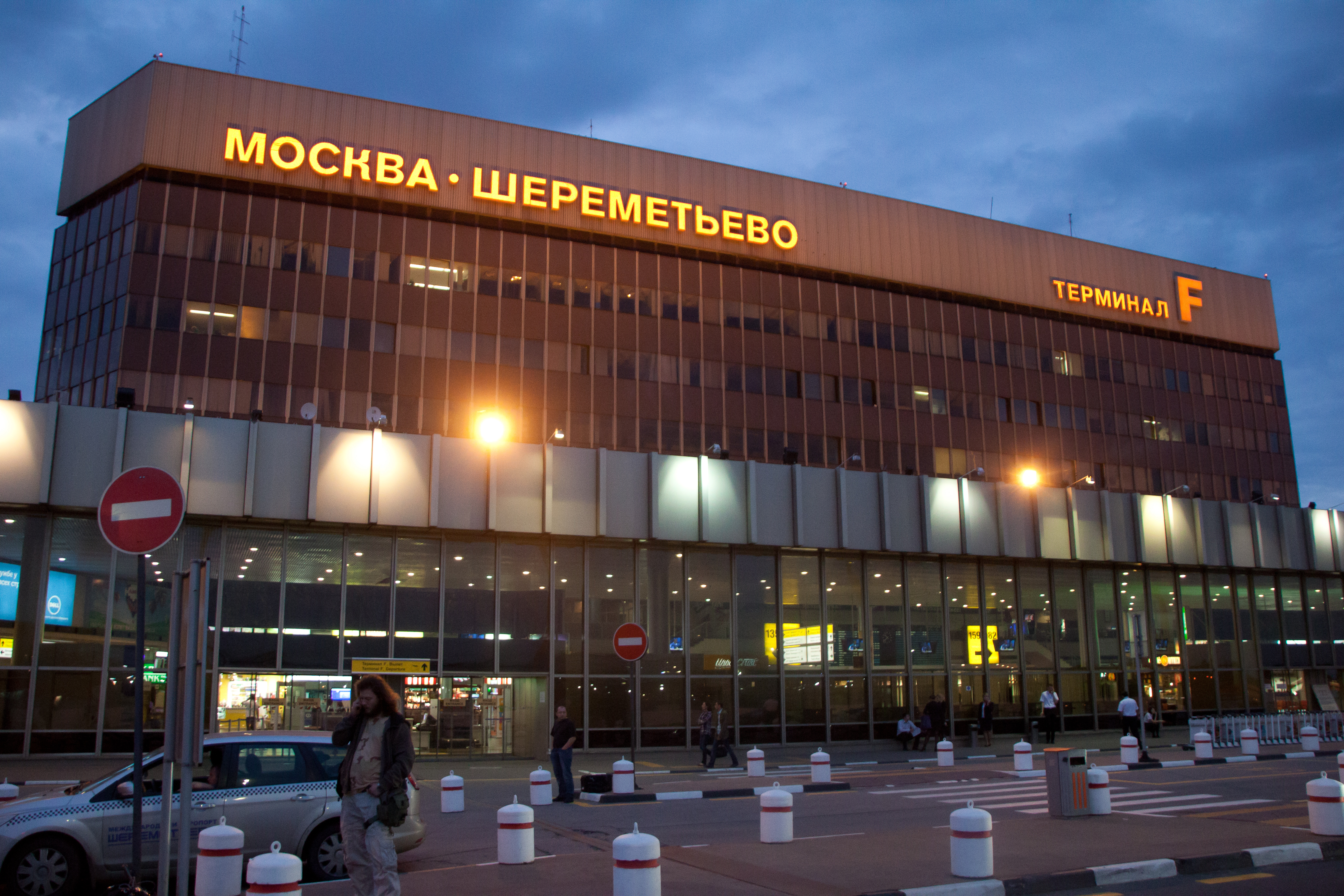 Terminal F at Sheremetyevo Airport at the time of the arrival of Edward Snowden